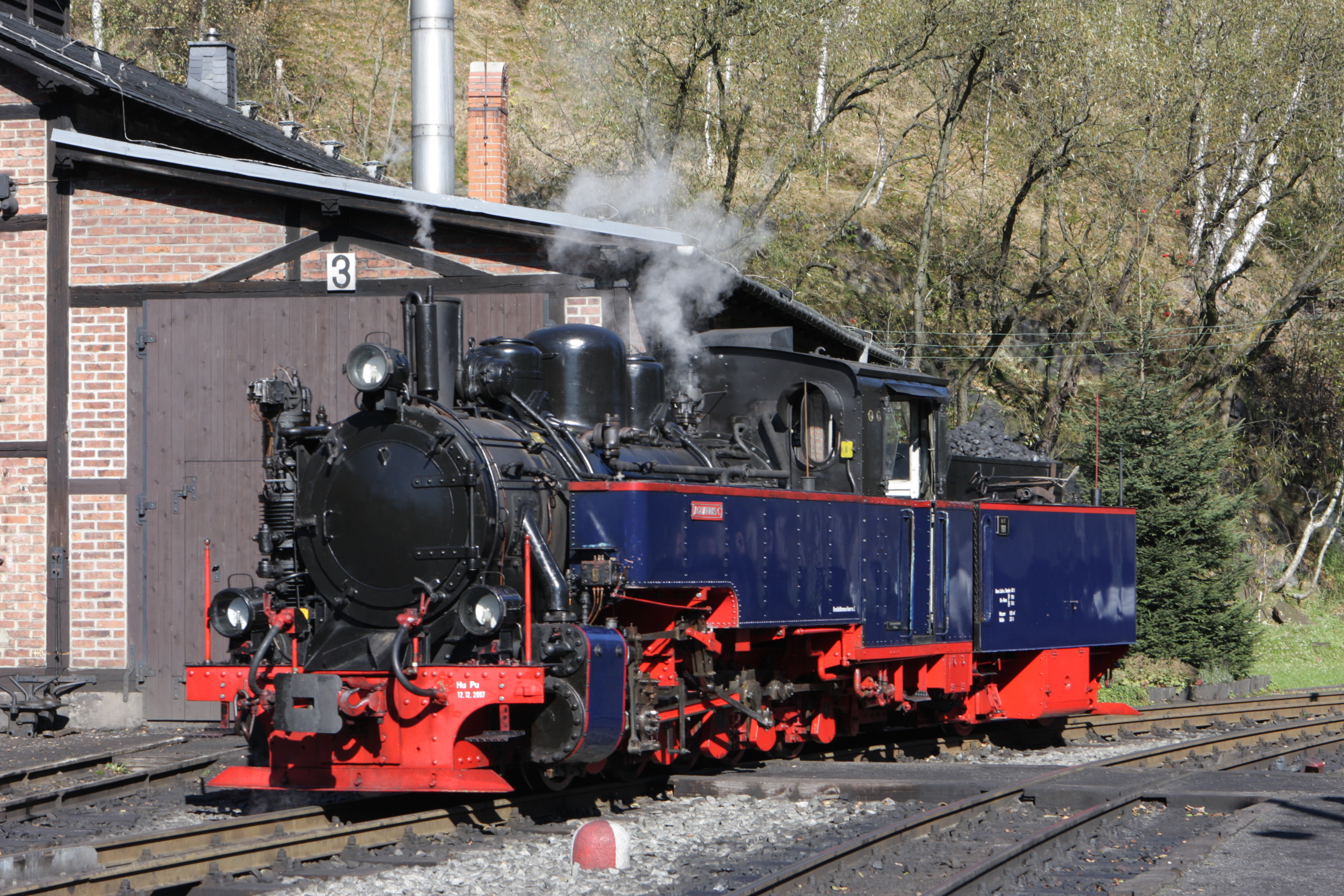 Aquarius C in Jöhstadt (Preßnitztalbahn)